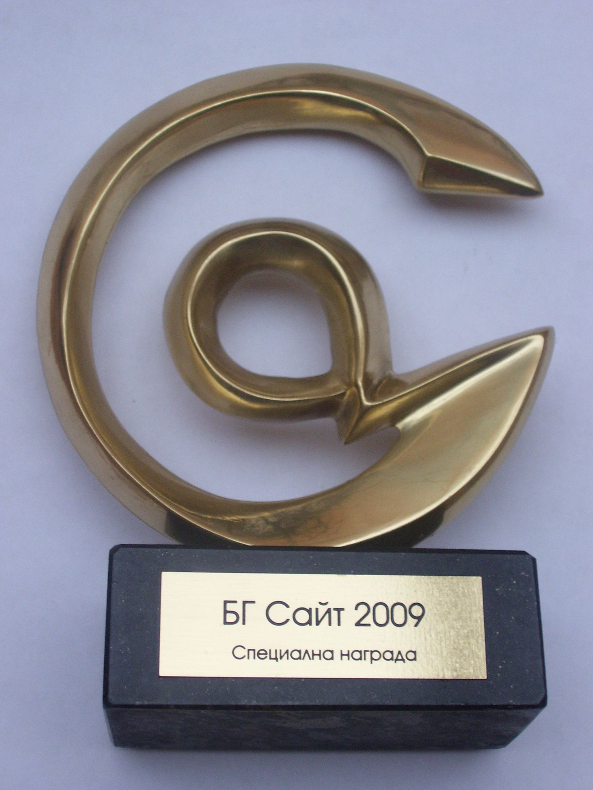 Special award from the competition BG Site 2009 awarded to Bulgarian Wikipedia for contribution to Bulgarian web space. The author of the statuette is sculptor Ivo Arnaudov.